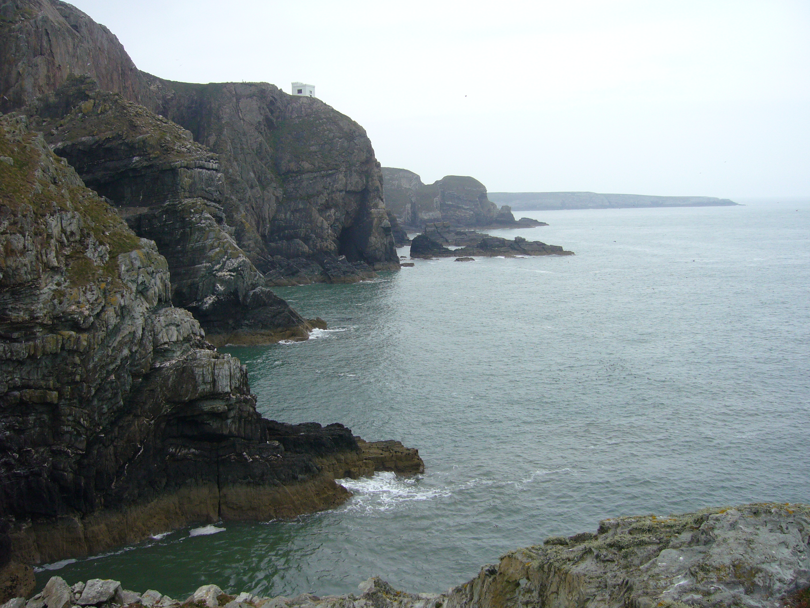 View along the Anglesey coastline from South Stack in Wales. Required attribution is: Photo by Tom Oates.